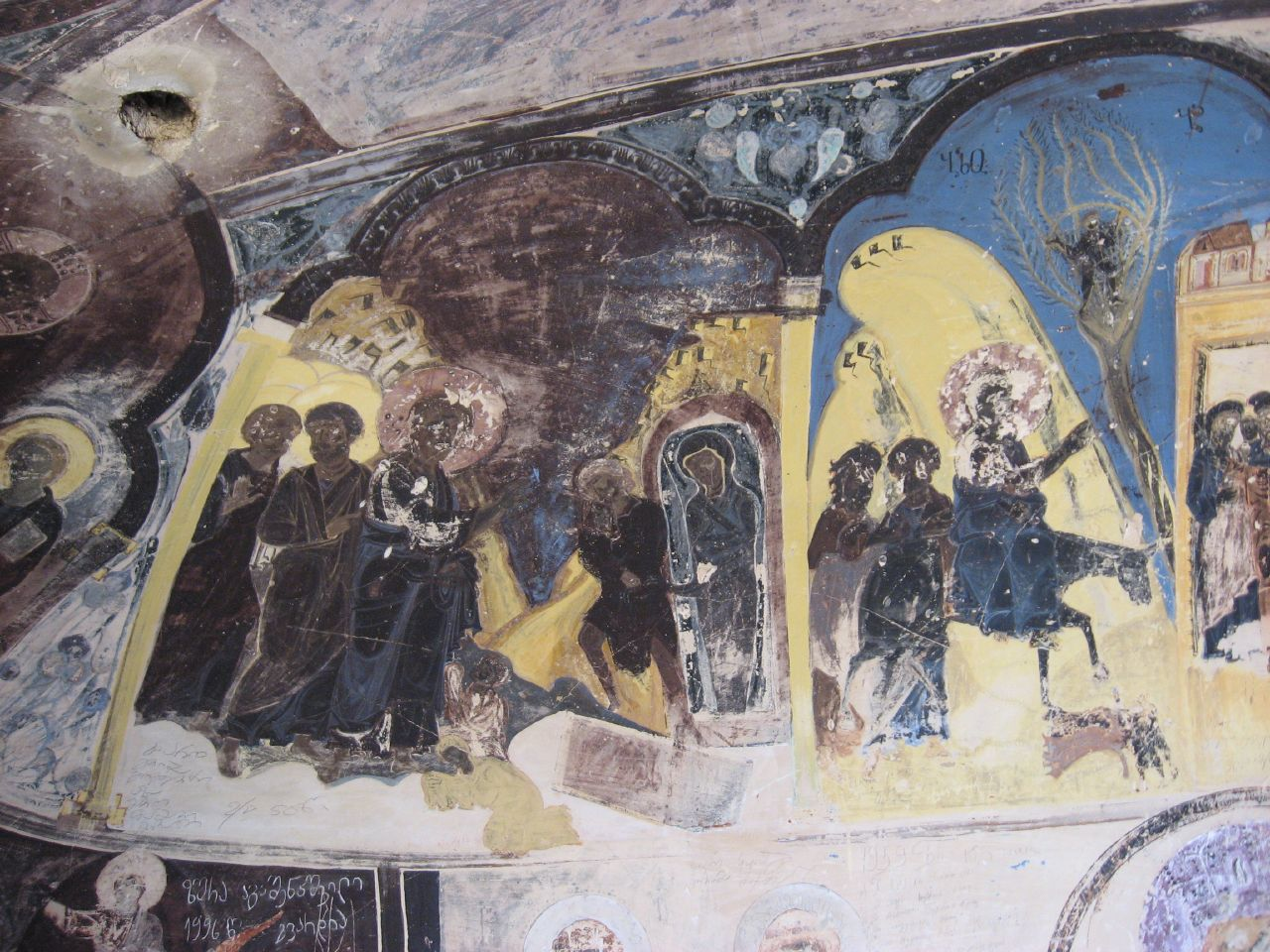 One of many paintings in the caves of David Gareja on the border of Georgia and Azerbaijan